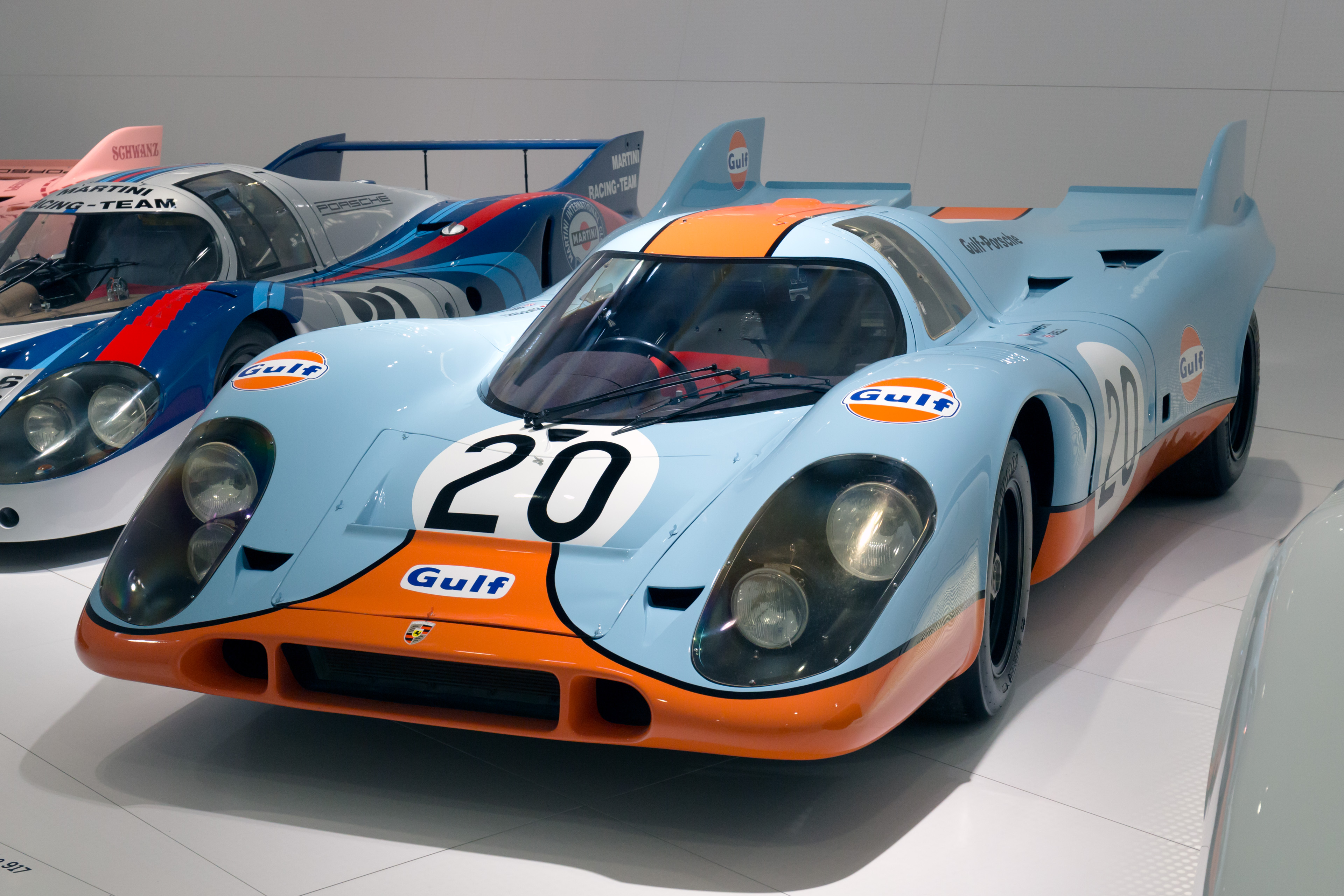 1970 Porsche 917 KH Coupe